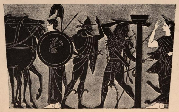 12th labour of Heracles - Project Gutenberg eText 19119 It is on a vase and describes one of the twelve heroic deeds of Herakles. The latter, holding aloft his club, drags two-headed Cerberus out of Hades by a chain drawn through the jaw of one of his heads. He is just about to pass Cerberus through a portal indicated by an Ionic pillar. To the right Persephone, stepping out of her palace, seems to forbid the rape. Herakles in his turn seems to threaten the goddess, while Hermes, to the left, holds a protecting or restraining arm over him. Athene, with averted face, ready to depart with her protégé, stands in front of four horses hitched to her chariot. Upon her shield the eagle augurs the success of the entire undertaking.